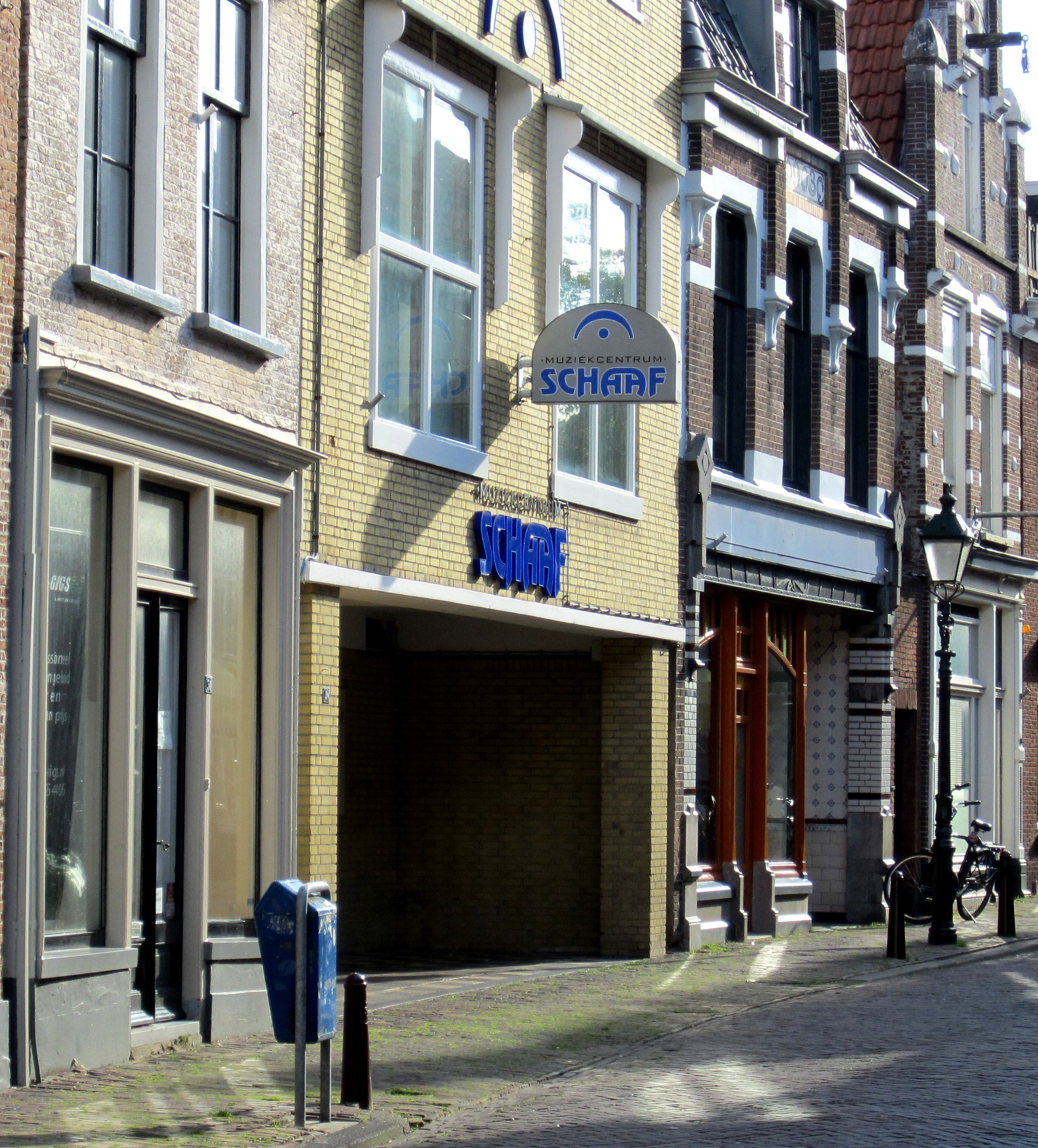 Zalen Schaaf, now called Schaaf City Theatre, an event center on Breedstraat/Breedstrjitte, Leeuwarden/Ljouwert, Friesland, the Netherlands.